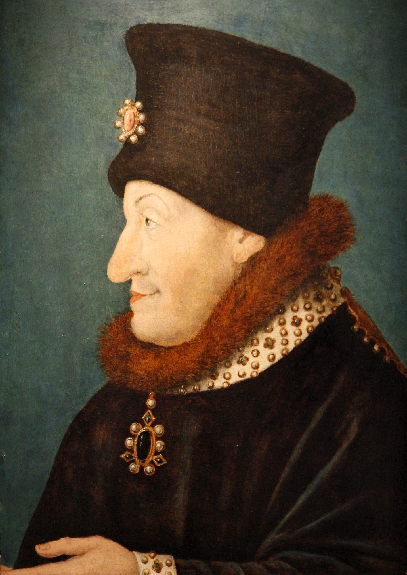 Portrait of Philip the Bold (1342-1404), first Duke of Burgundy from the House of Valois. Bust, facing left. 16th- to 18th-century copy of a lost late 14th-century painting from the Chartreuse de Champmol near Dijon. Other versions in London, Versailles, Paris, Cincinnati and Nancy.